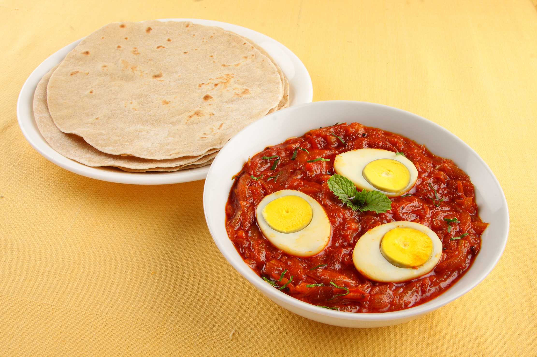 Egg Roast is a delicious spicy preparation of the eggs in a delicious onion and tomato based gravy.